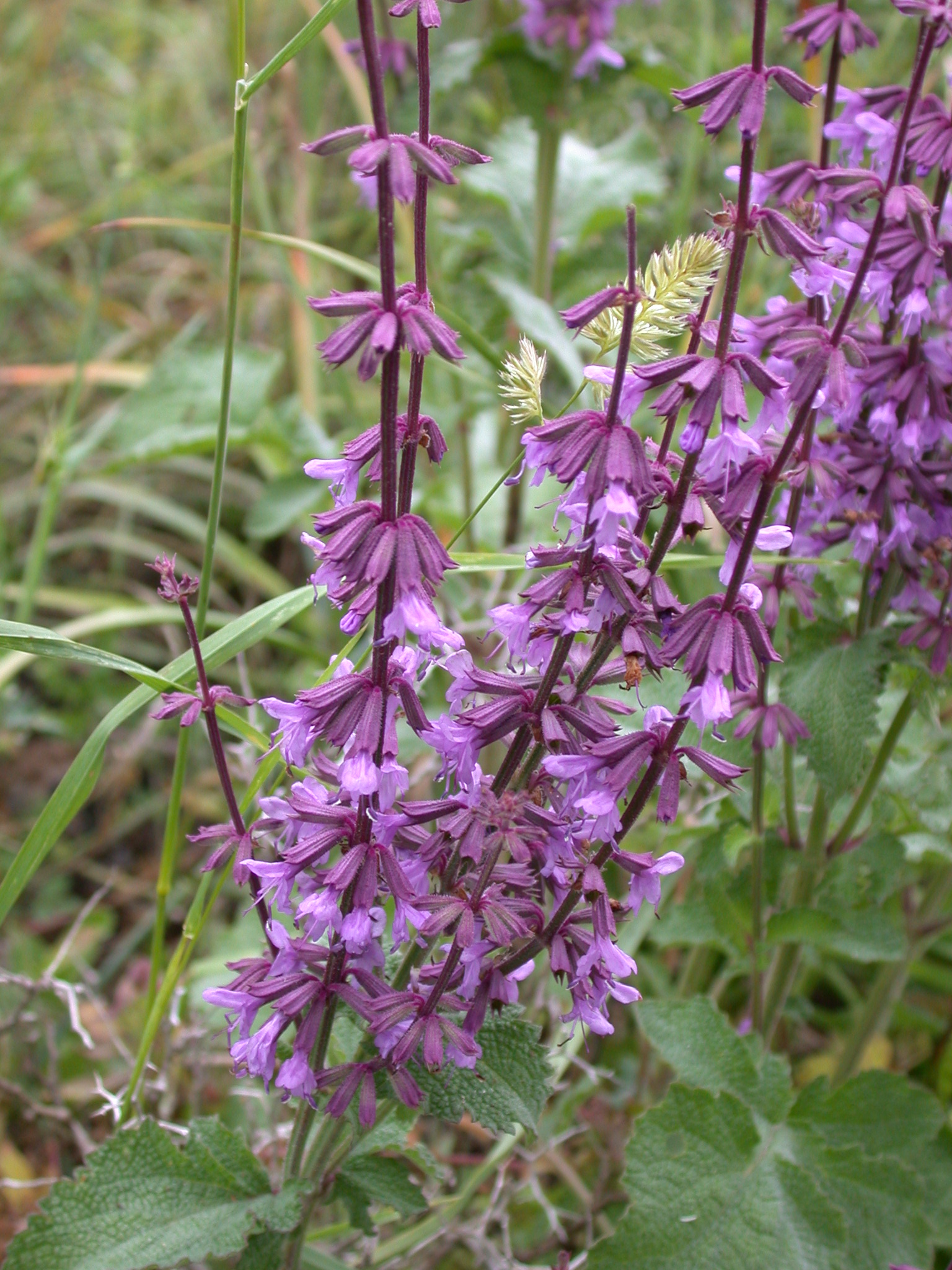 Salvia judaica Boiss. (מרוות יהודה), Nachal Rakefet, Mount Carmel, Israel, April 18, 2006.